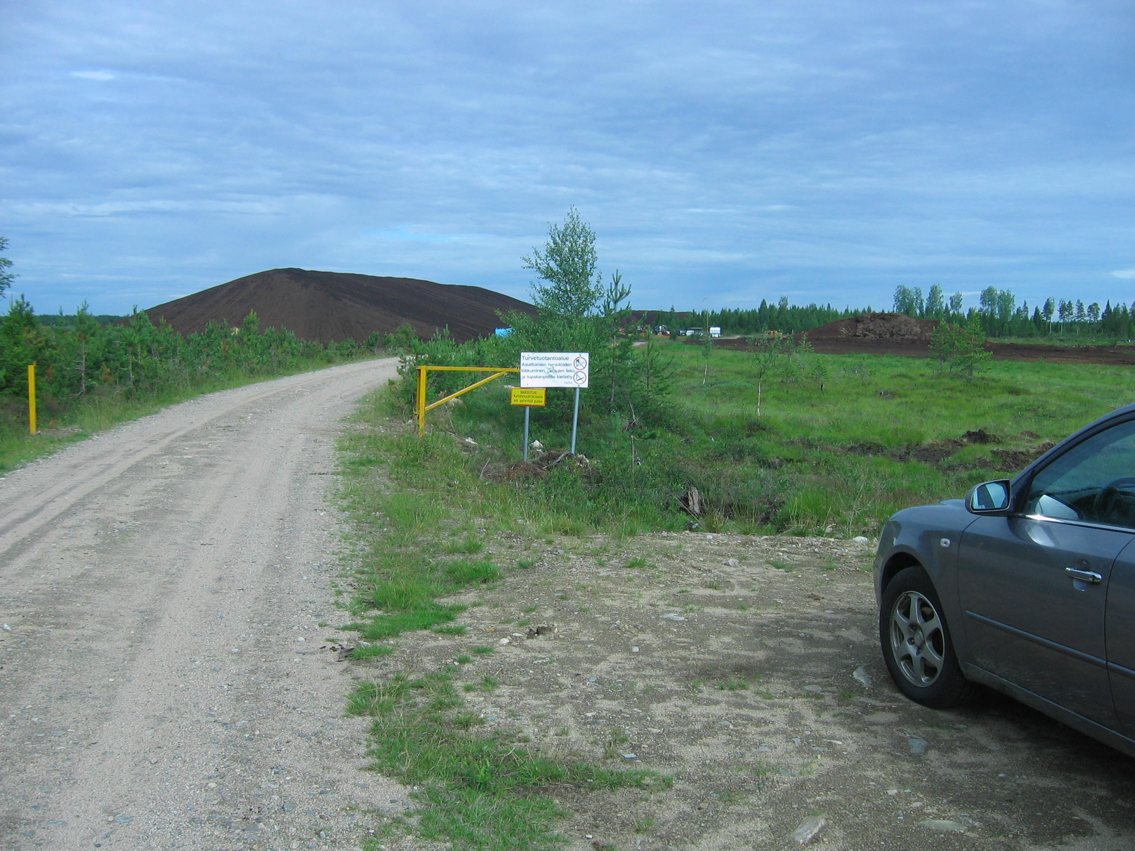 The Puutiosuo peat bog in Ii, Finland